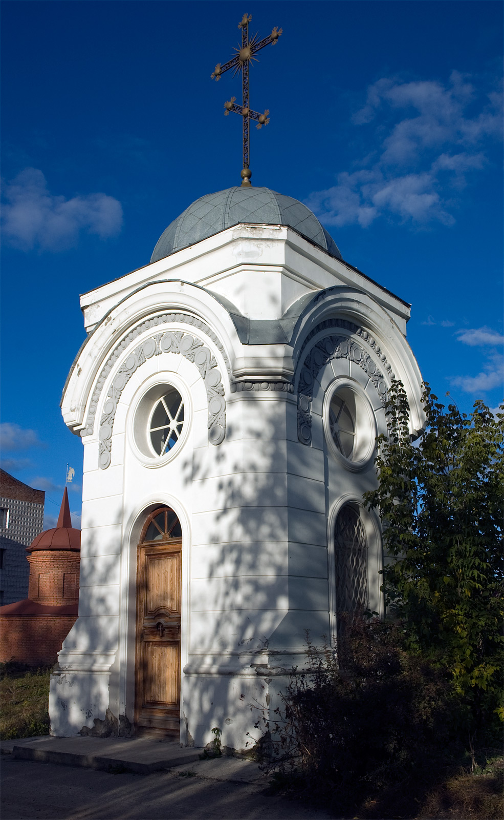 Chapel of st Feodor Kuzmich in Tomsk (2005)